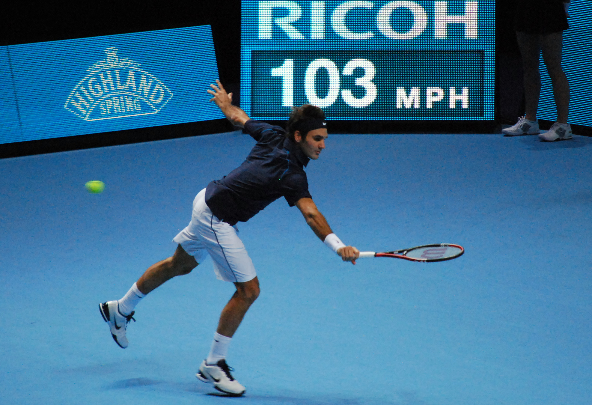 Roger Federer during his semi-final against David Ferrer in the ATP World Tour Finals 2011. Federer won 7-5, 6-3, and went on to beat Jo-Wilfried Tsonga in the final.